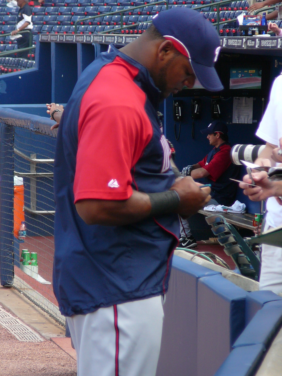 Wily Mo Peña